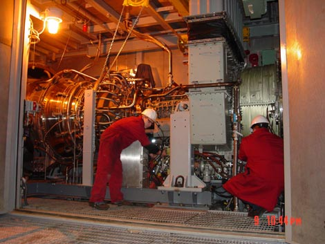 Photo of GE LM6000